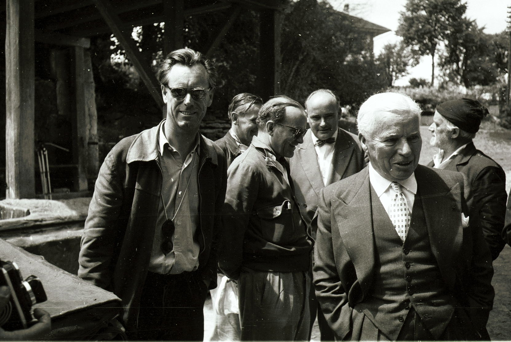 Charlie Chaplin during film shoot for "Ueli der Pächter", on the left: Emil Berna